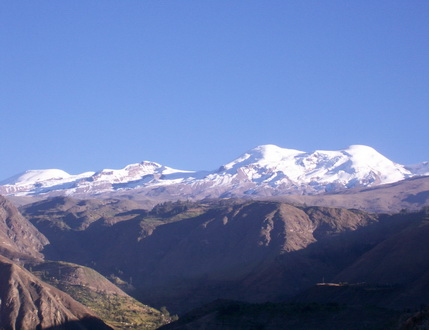 Coropuna as seen from Tipán District